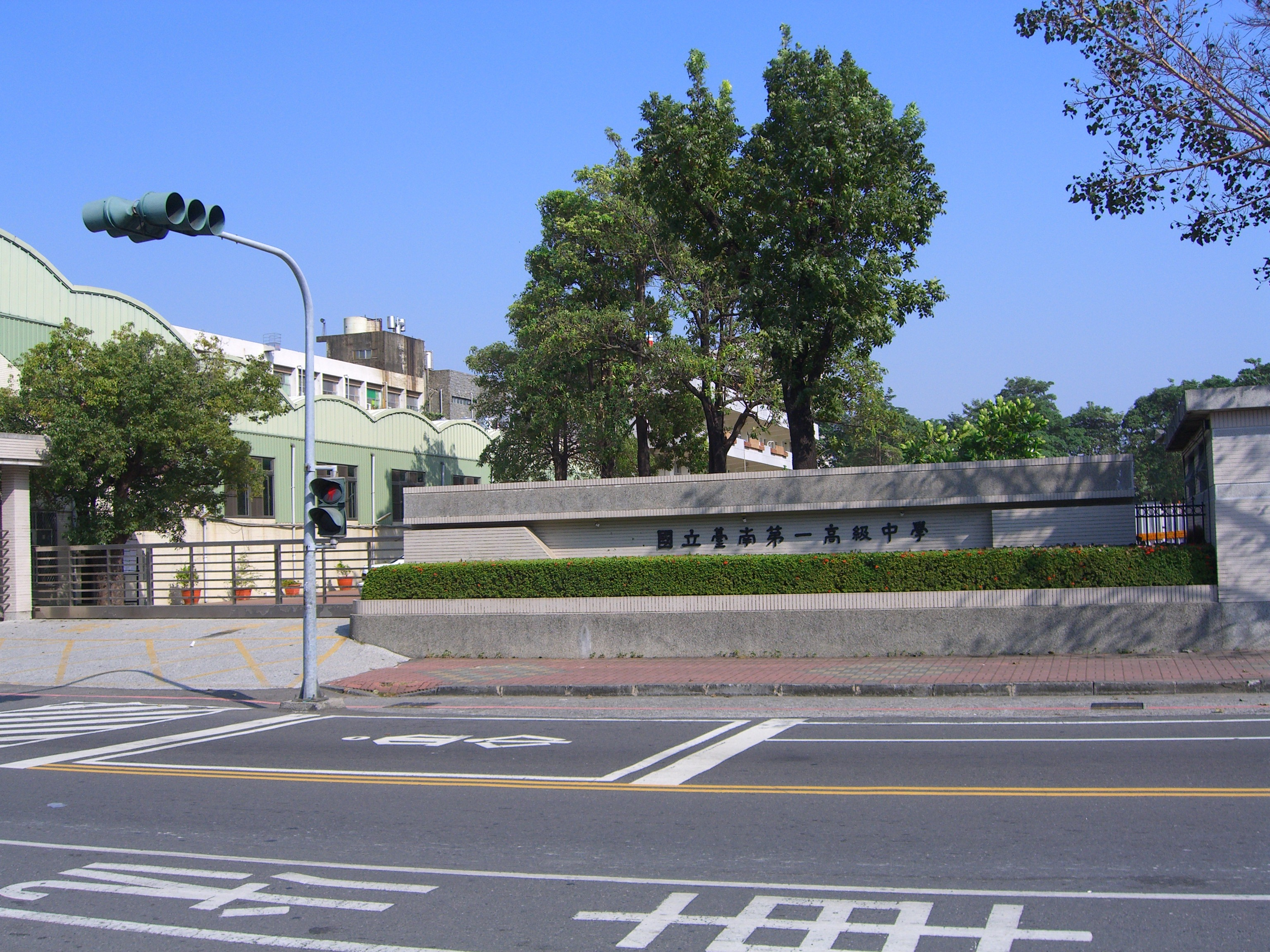 TNFSH Playground Entrance 台南一中操場入口